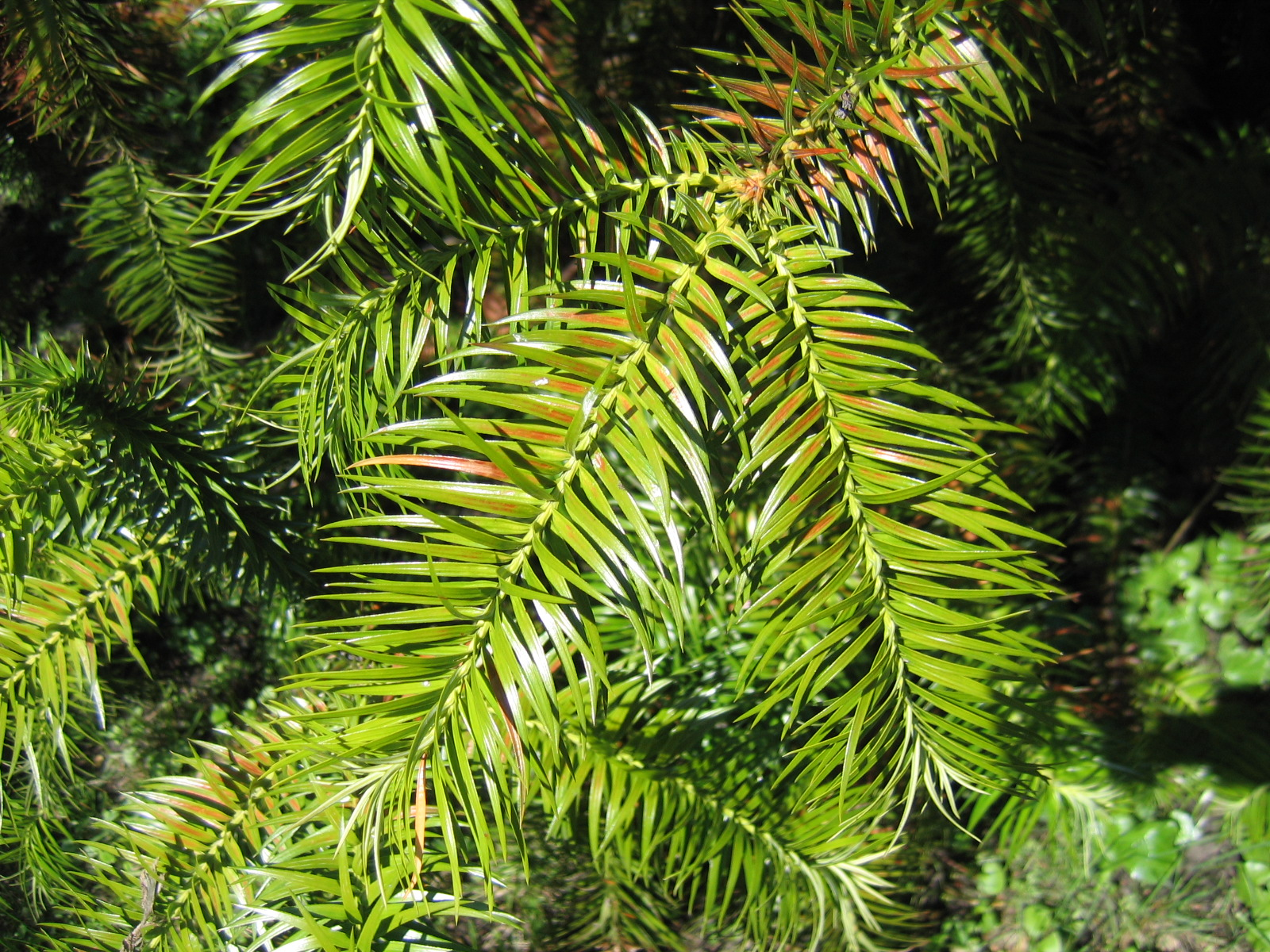 Chinese fir (Cunninghamia lanceolata), cultivated in Wrocław University Botanical Garden, Wrocław, Poland.